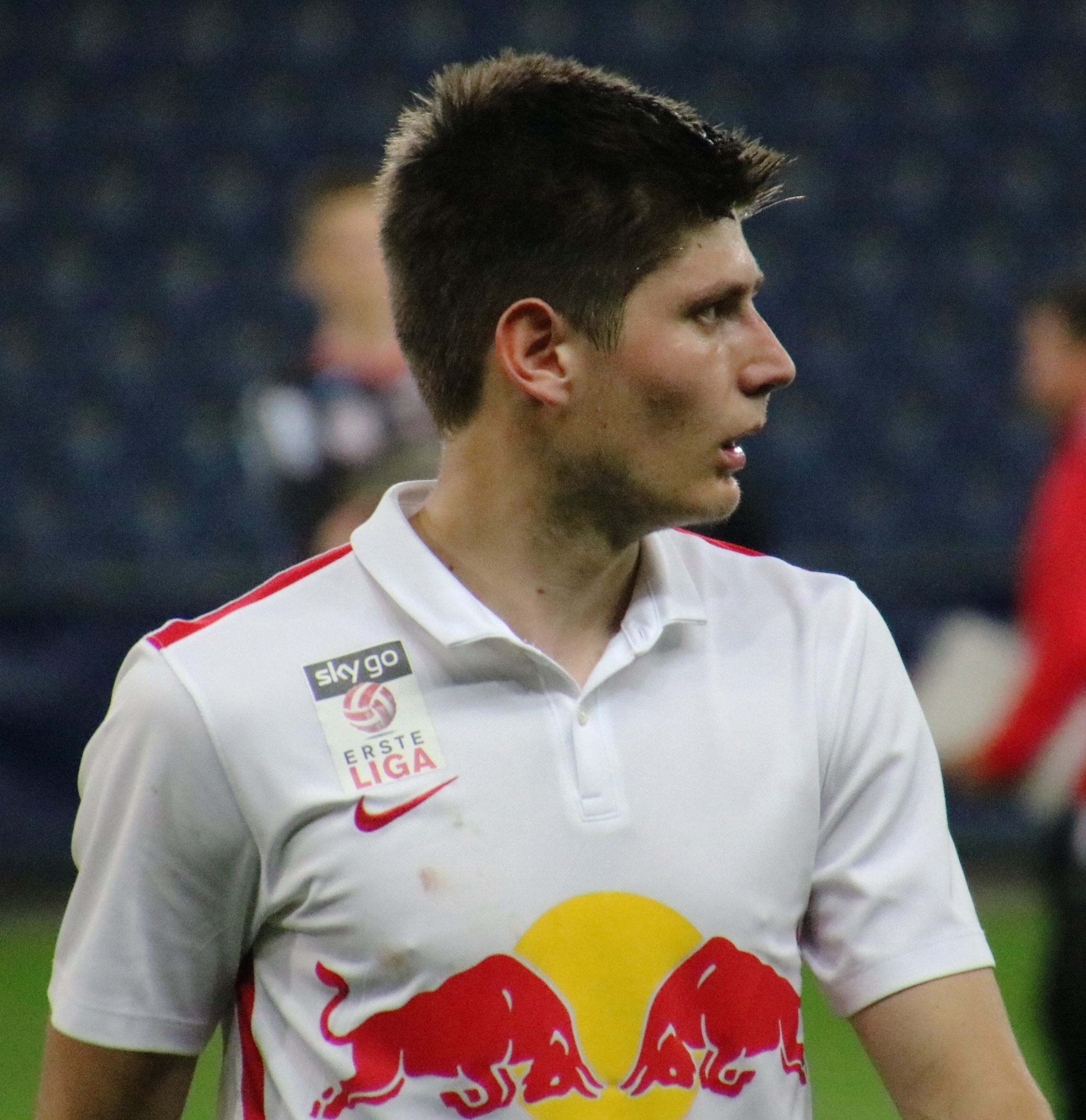 league match Austria 2nd league